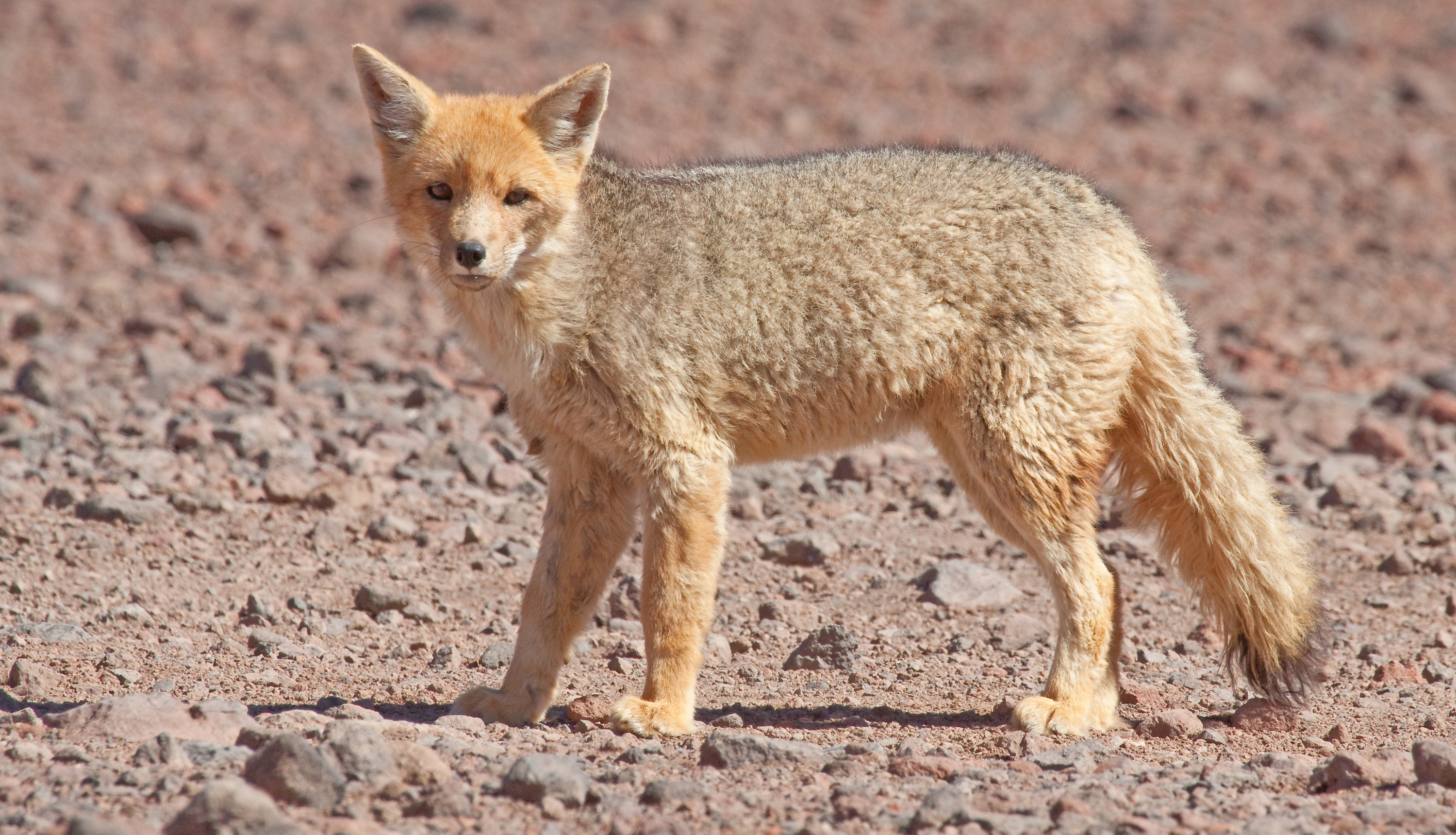 Lycalopex culpaeus, A Culpeo or Andean Fox at the border between Bolivia and Chile.